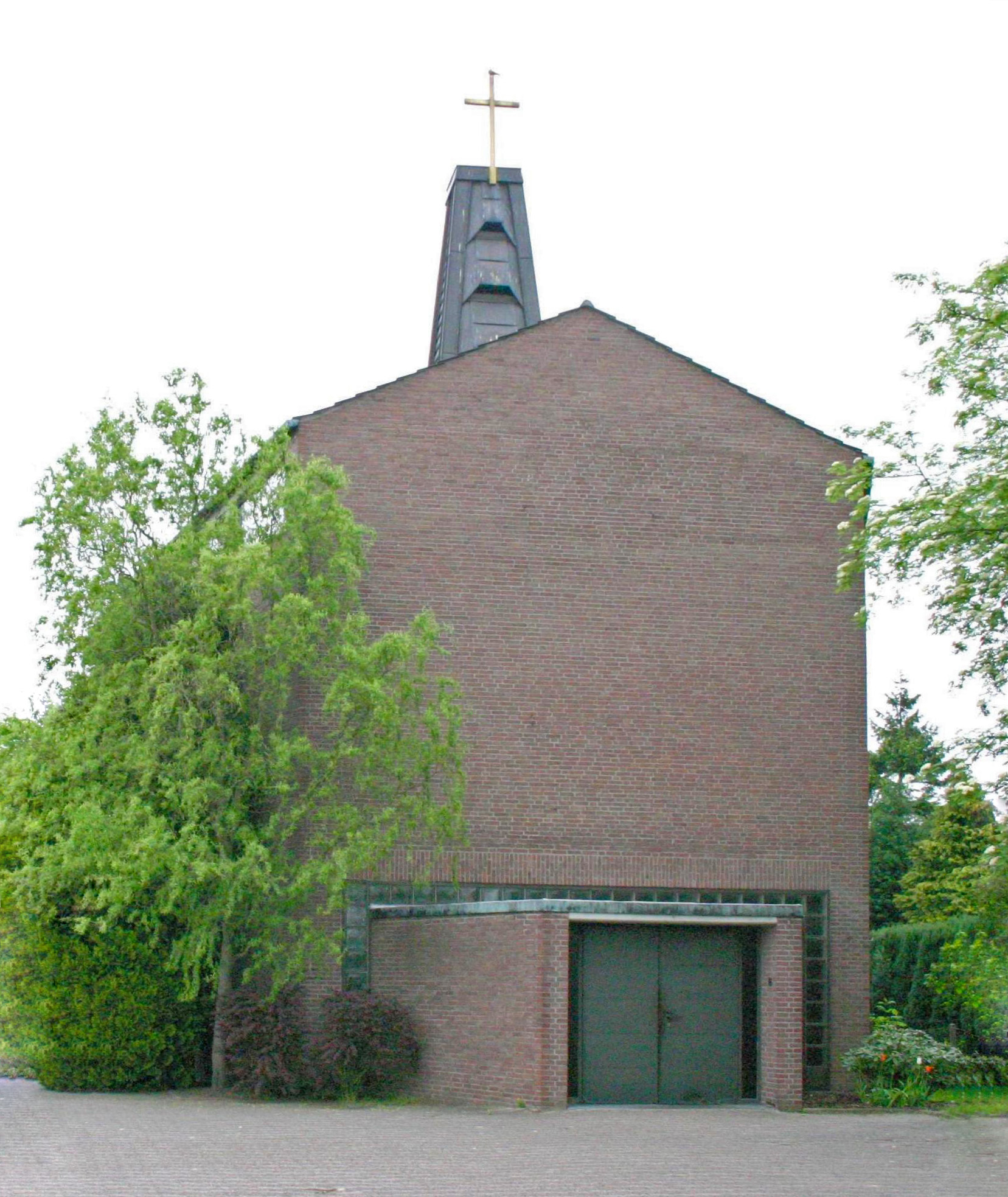 Loxstedt, St.John Baptist, Front-View